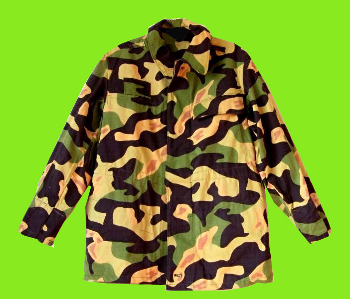 Czechoslovak field jacket m. 1960bin mlok pattern